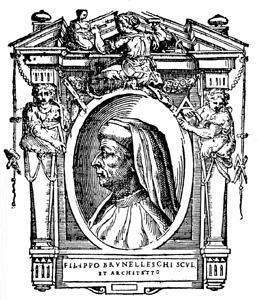 Illustratio from "Le Vite" by Giorgio Vasari, edition of 1568. For the artist portrayed see filename